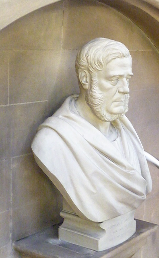 Thomas Emerson Forster bust in the North of England Institute of Mining & Mechanical Engineers Newcastle Upon Tyne